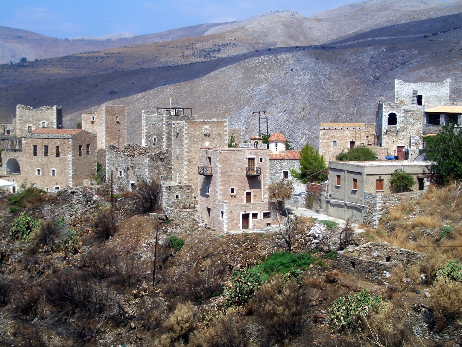 Tower houses in village Vatheia in Laconia, Greece, on the Mani Peninsula.